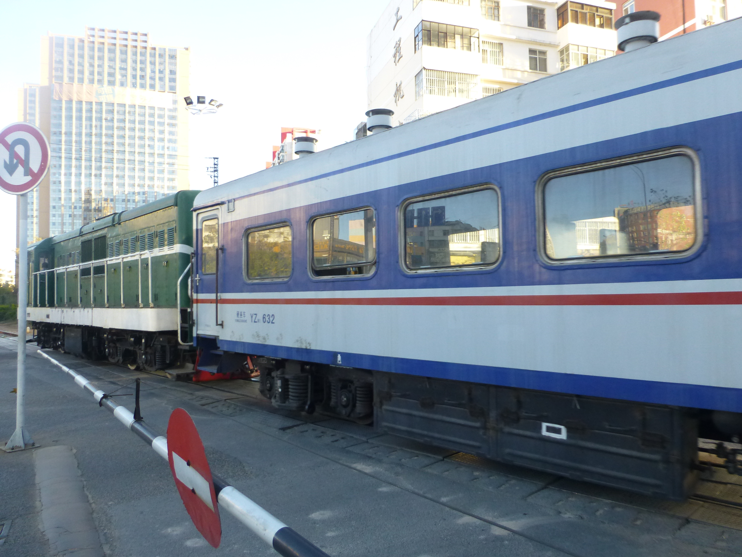 A narrow-gauge passenger train on Kunming-Hekou Railway, on its way from Kunming North Station to Wangjiaying. Photo taken at a railway crossing a few blocks east of Kunming North Railway Station